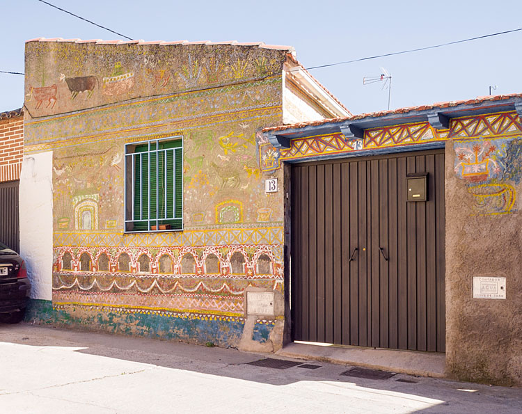 Casa pintada